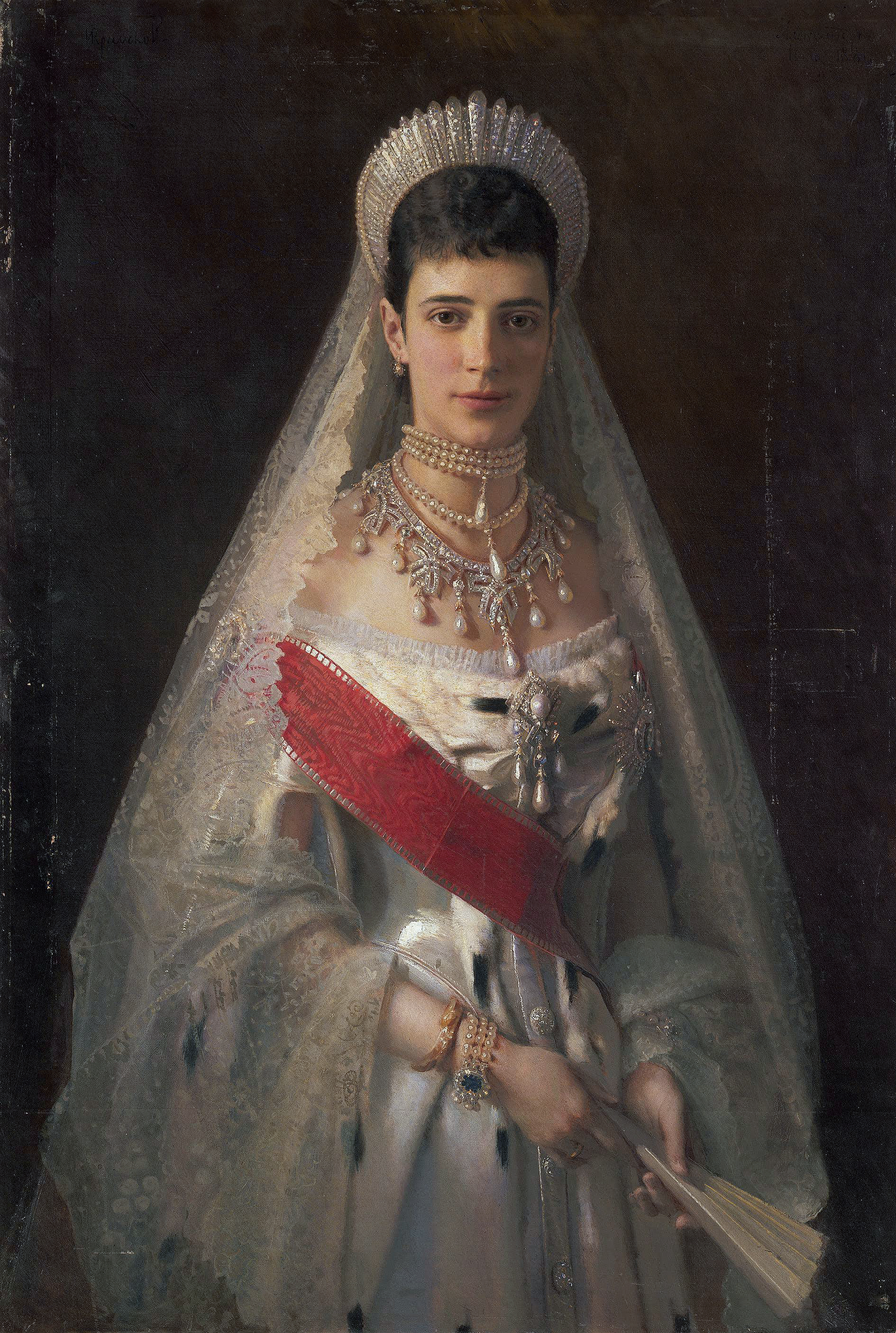 Maria Fyodorovna, born Princess Dagmar of Denmark , wife of russian tsar Alexander III and mother of tsar Nicholas II